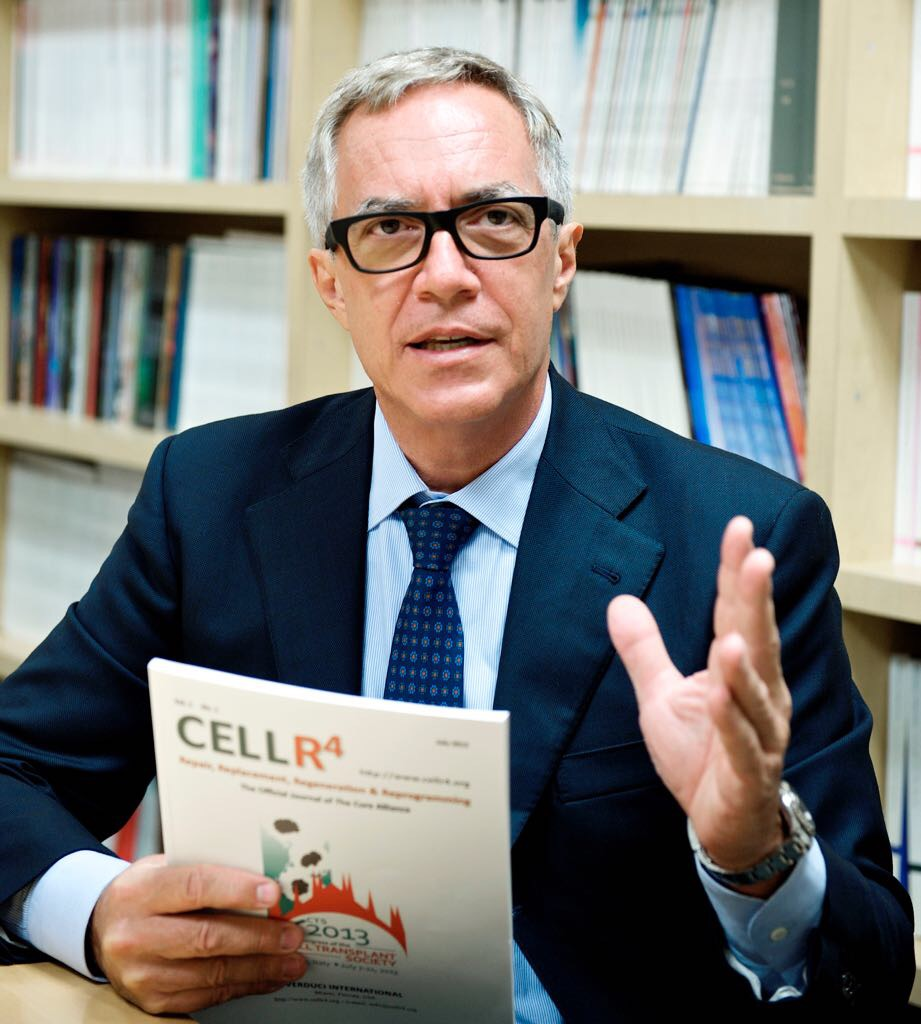 Editor-in-Chief